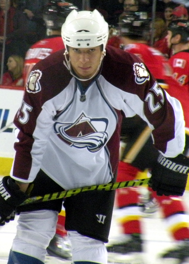 Colorado Avalanche forward Chris Stewart prior to a National Hockey League game against the Calgary Flames in Calgary.